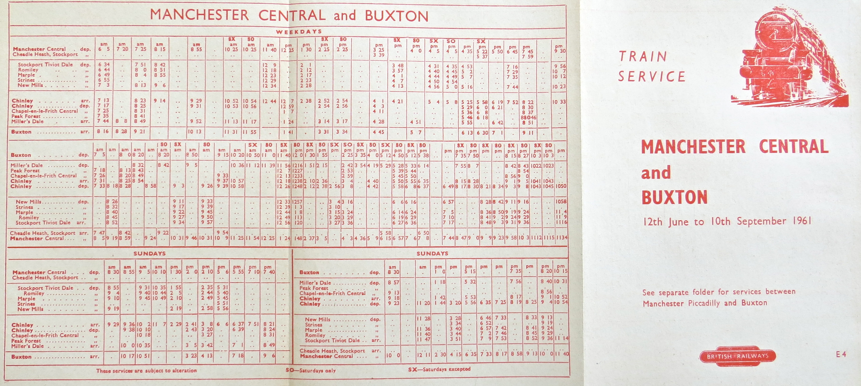 2 sided leaflet with fares on other side